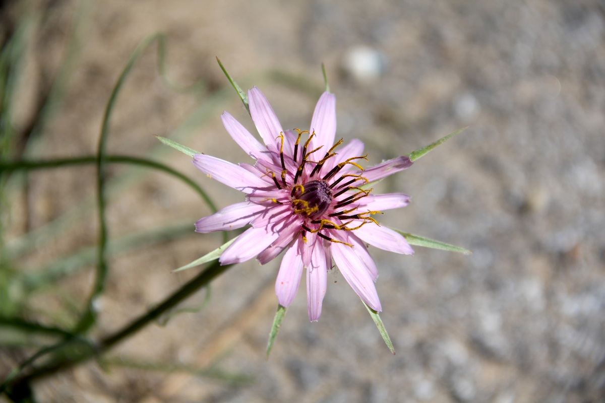 Tragopogon porrifolius subsp. eriospermus (Syn. T. sinuatus)